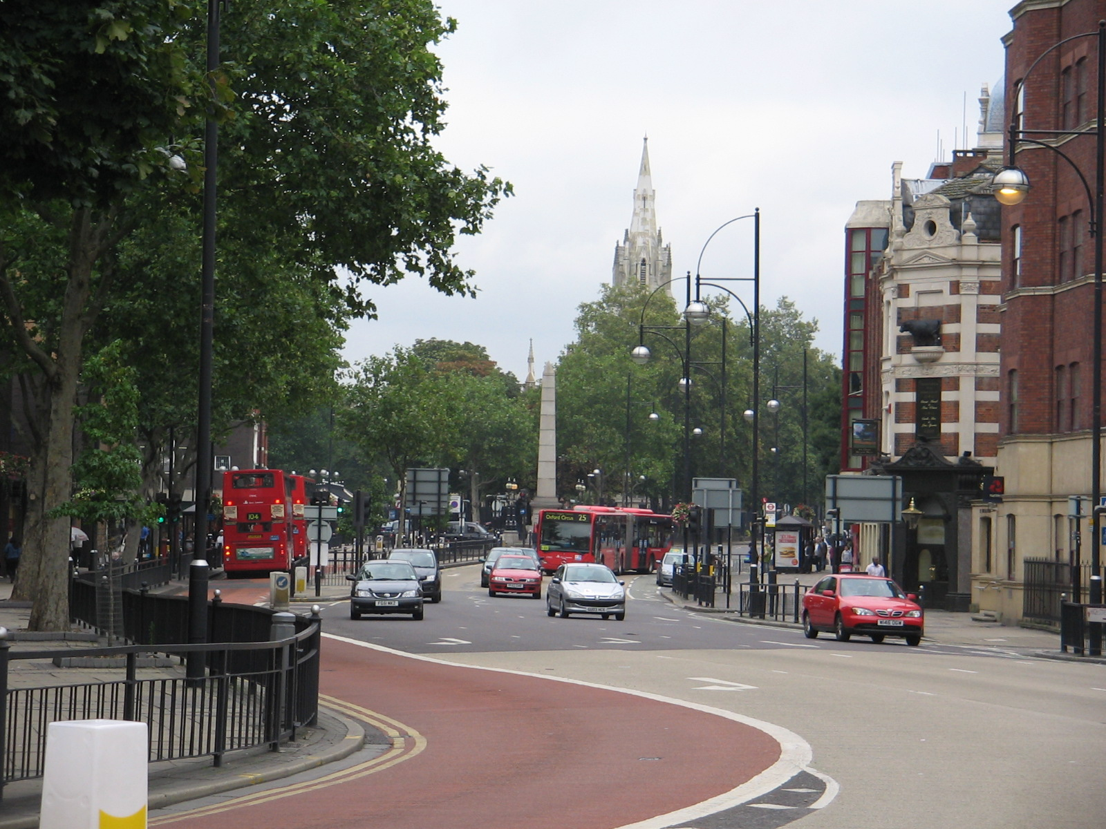 The Broadway of Stratford, London.